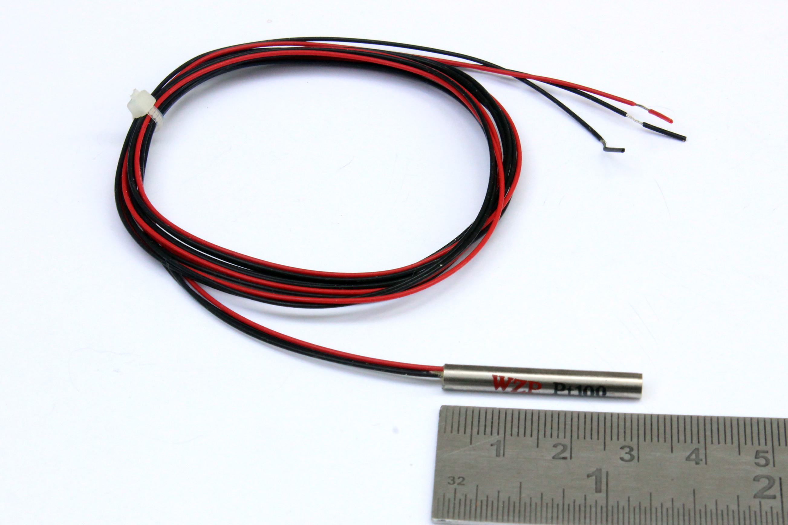 3 wire PT100 Sensor